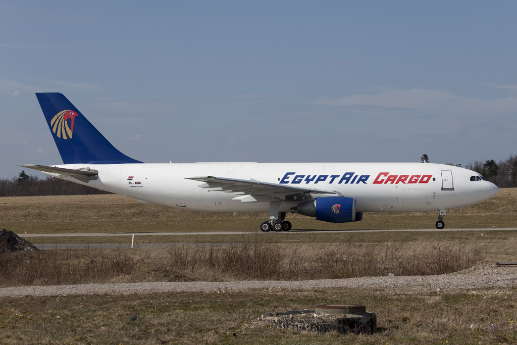 SU-BDG A300F Egyptair Cargo